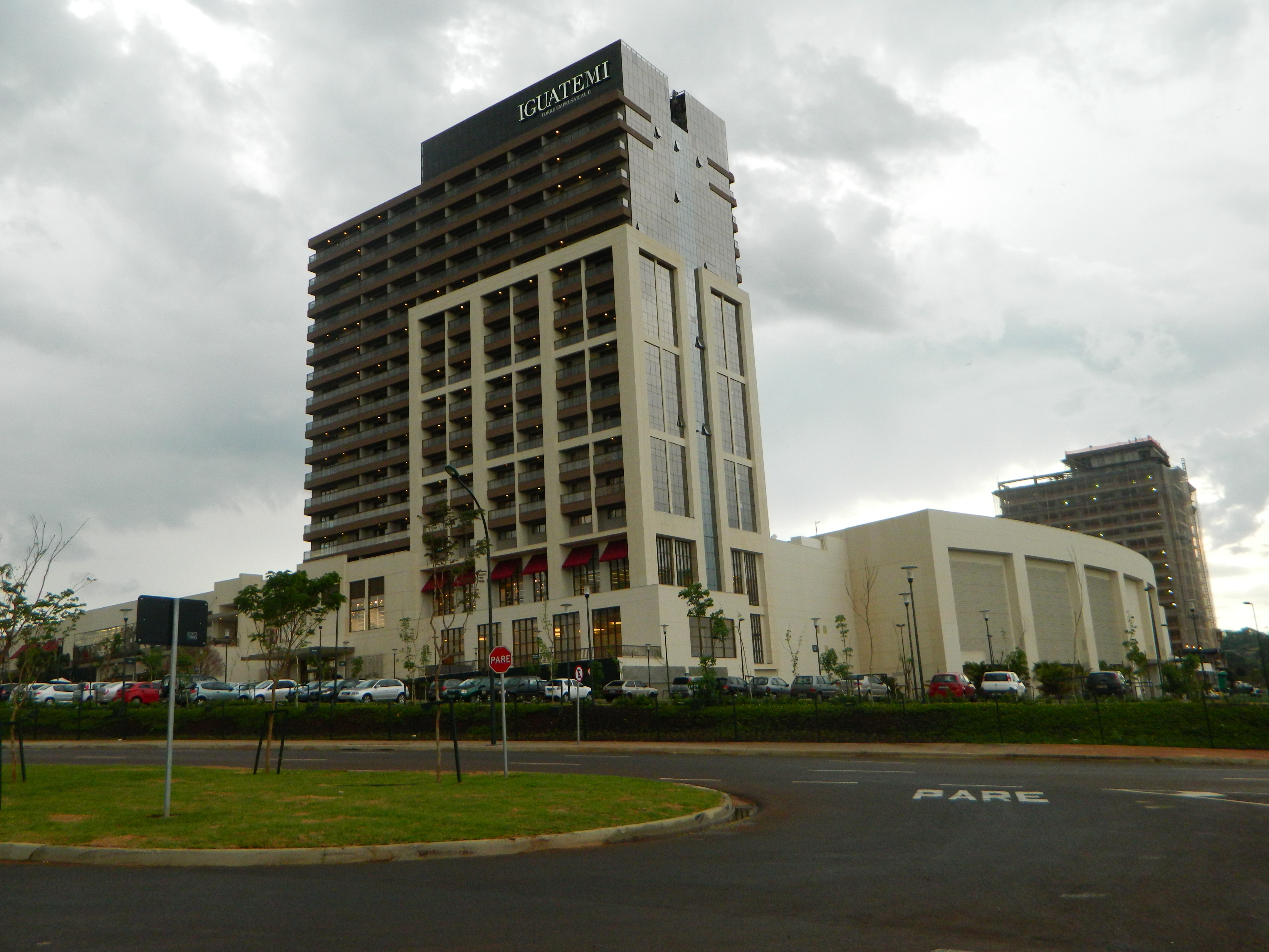 Iguatemi Ribeirão Preto, São Paulo, Brazil.